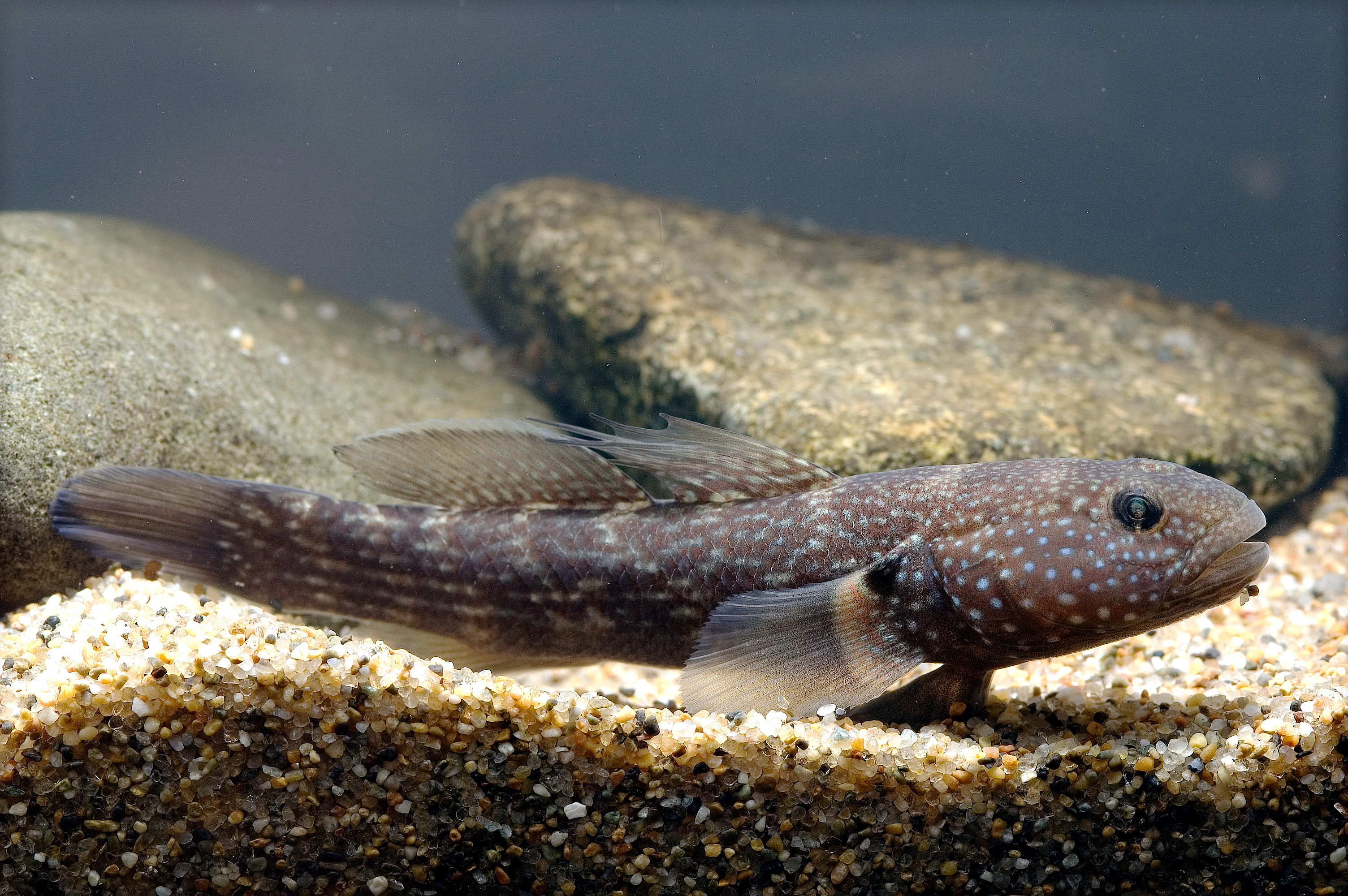 Numachichibu, Tridentiger brevispinis, from Hamamatsu, Shizuoka, Japan.